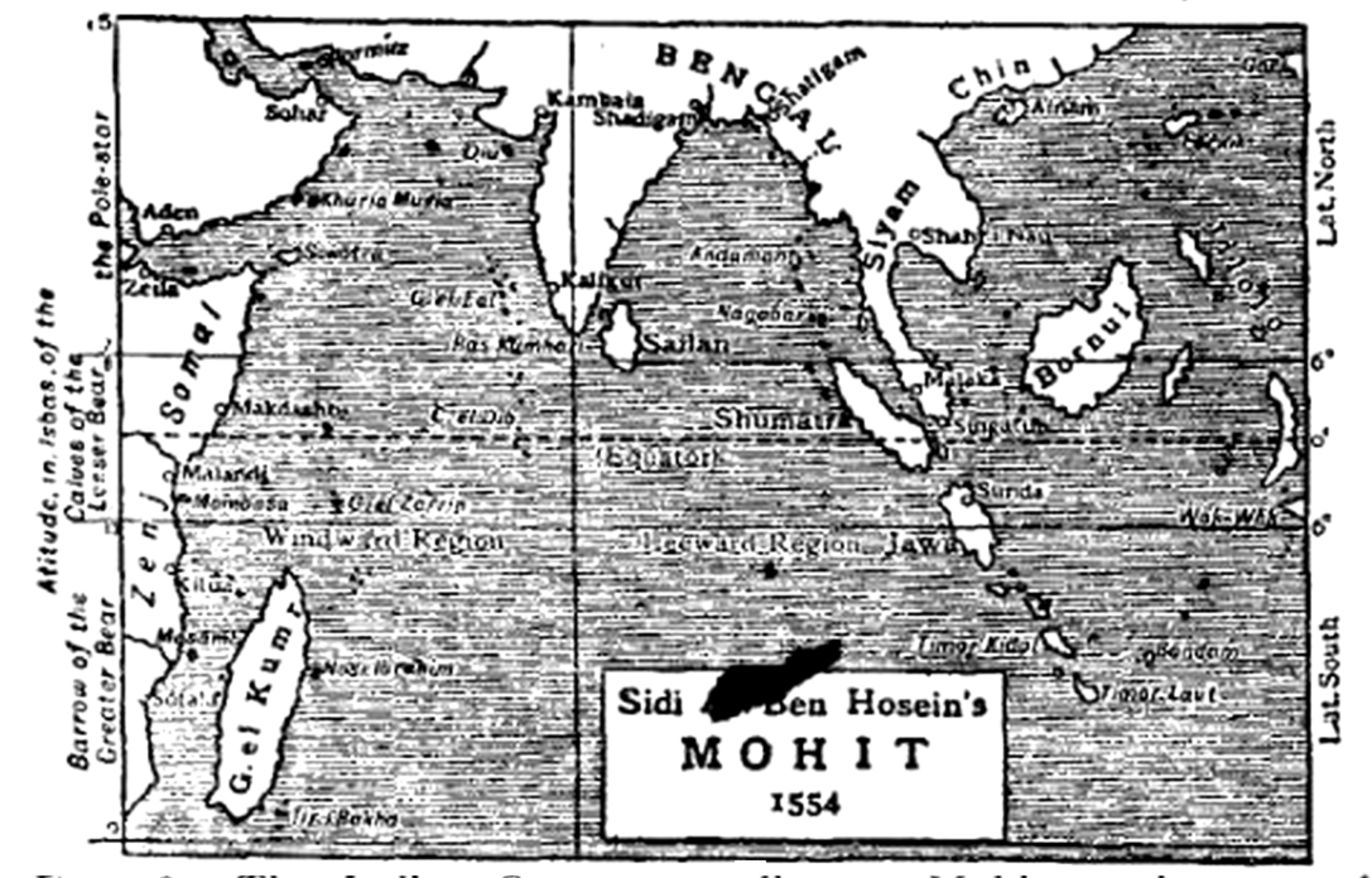 Caption: "Fig. 18.—The Indian Ocean according to Mohit, as interpreted by Dr Tomaschek."The EB’s version of George Philip & Son's engraving for Ernest George Ravenstein's Journal of the First Voyage of Vasco da Gama, 1497–1499 (London, 1898), simplified from Wilhelm Tomaschek's reconstructed map for Maximilian Bittner's Die topographischen Capitel des Indischen Seespiegels Moḥîṭ (Vienna, 1897), based upon the Indian Ocean data in the Turkish admiral Sidi Ali Ben Hosein's 1554 Mohit ("Encyclopedia of the Sea") [i.e., Seydi Ali Reis's Kitab i-Muhit or "Book of the Ocean"].For a discussion of the isbas ("fingers") used here in place of degrees, see Ravenstein (1898), p. 26–27.